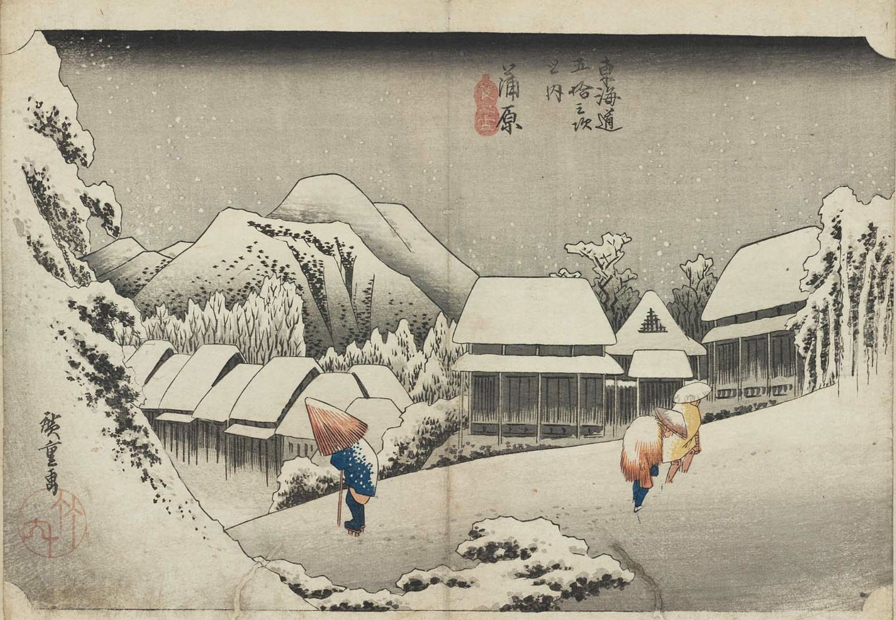 Station Kanbara, „Night Snow“ (yoru no yuki, 夜之雪); variant a; publisher seal Takeuchi (竹内) (Hoeidō)